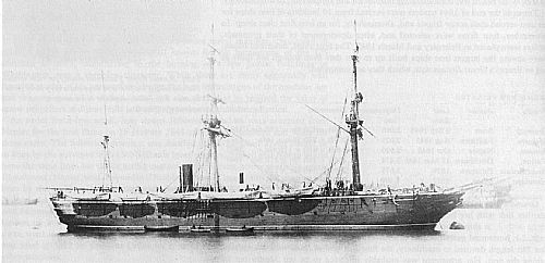 Built as an iron screw frigate launched in 1849, HMS Simoom was converted to a troopship in 1852 and was sold in 1887.